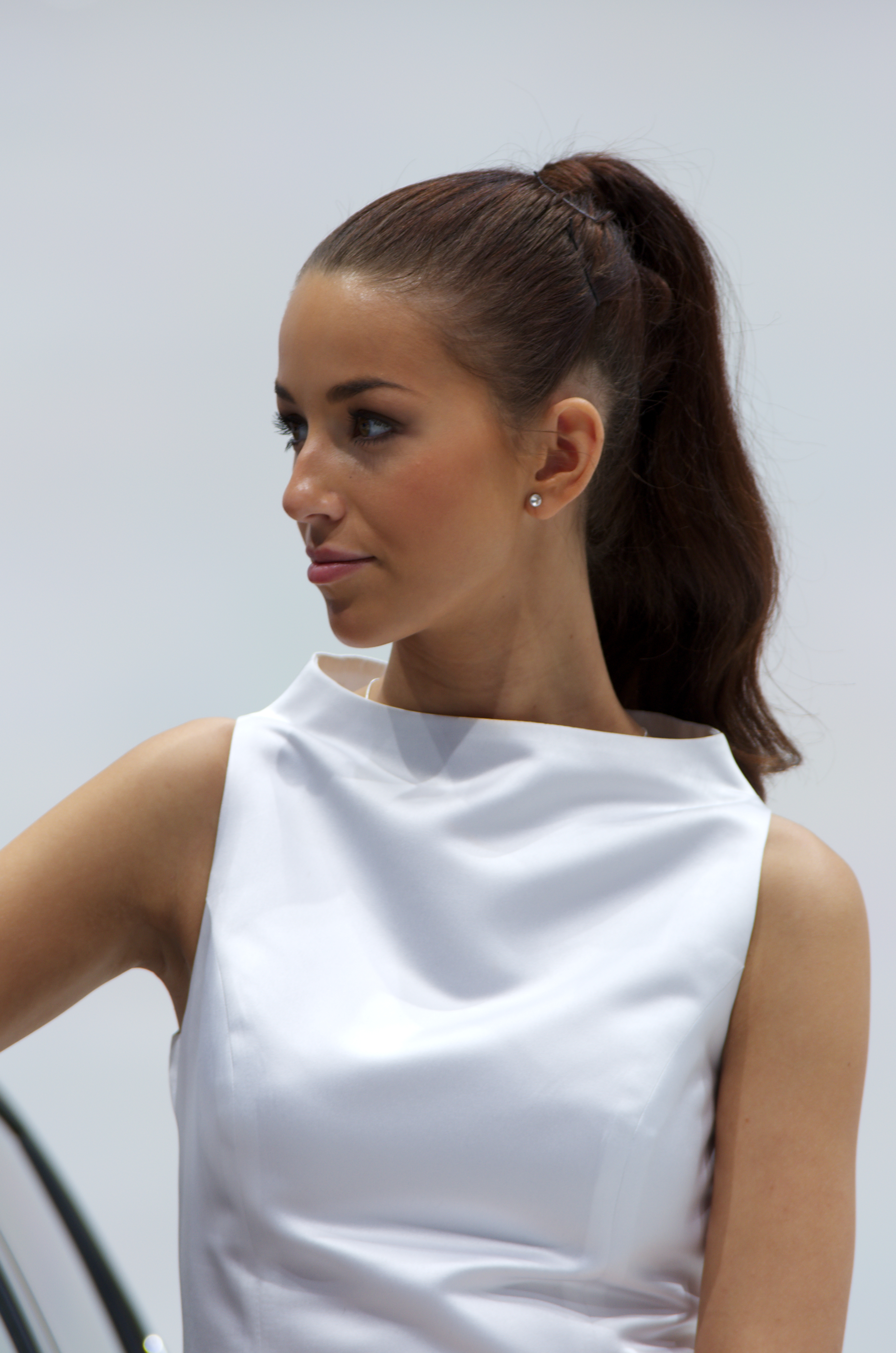 Geneva MotorShow 2013 - Skoda hostess